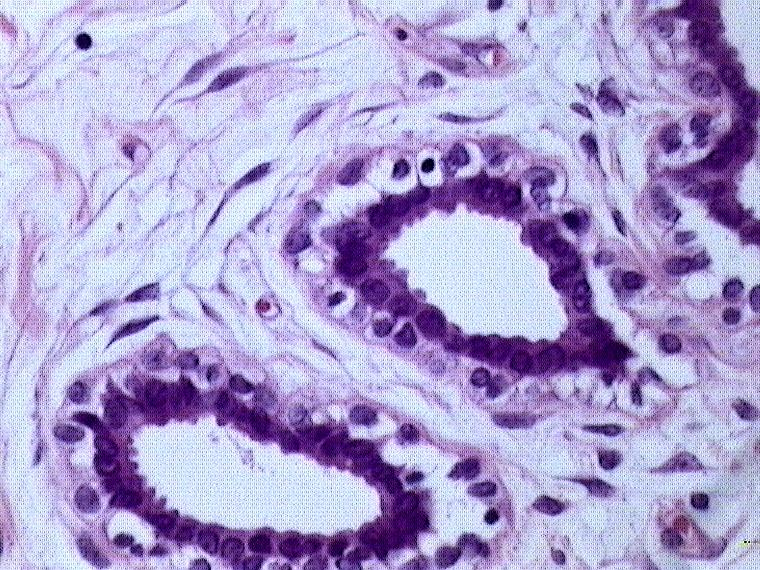 Breast cancer. Image made by Itayba